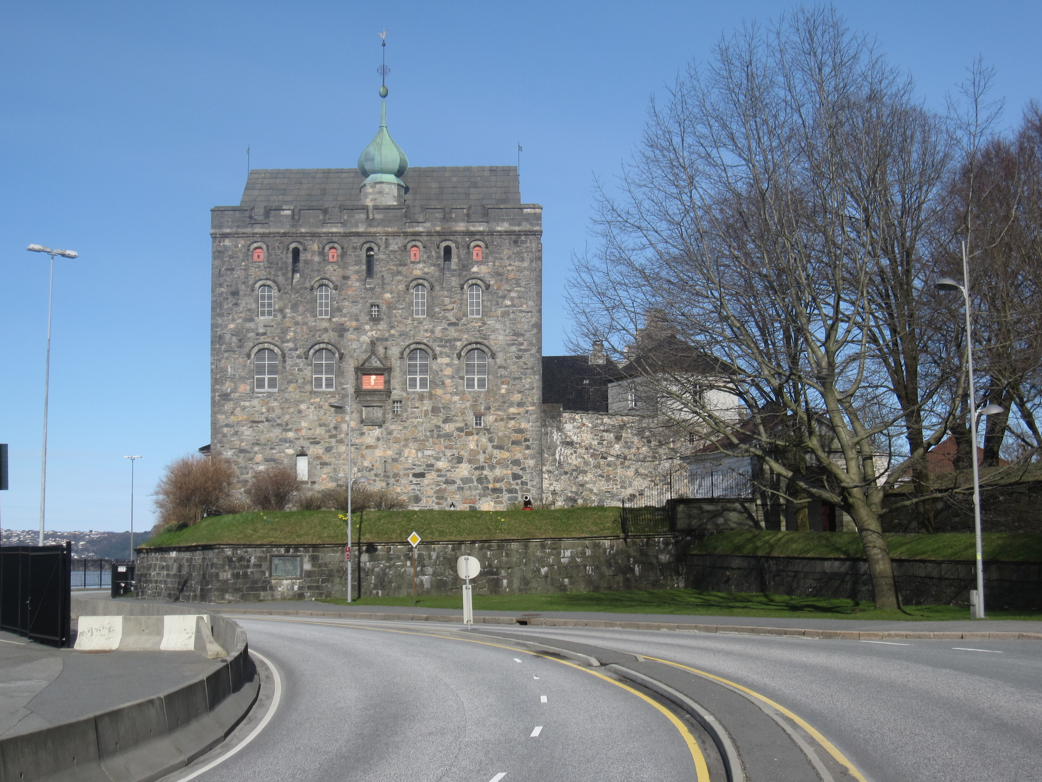 Rosenkrantztårnet (The Rosenkrantz Tower) is a prominent building in Bergenhus Festning, this view is from outside the fortress. The tower derives its name from governor Erik Rosenkrantz (1519-1575). It was during his administration the tower received its present shape. The oldest part of the building, however, is made up of a medieval tower, known as the "Keep by the Sea", built by King Magnus IV Håkonsson (aka Magnus the Lawmender) in the 1270s as part of the royal castle in Bergen. The keep was extensively modified and expanded in the 1560s by Scottish stonemasons and architects in the service of Erik Rosenkrantz. Rosenkrantz' building contained dungeons on the ground floor, residential rooms for the governor higher up and positions for cannons on the top floor. In the 1740s, the tower was converted to a magazine for gunpowder, a function it served until the 1930s. The whole building has been open to the general public since 1966. Today, the tower serves primarily as a tourist attraction.